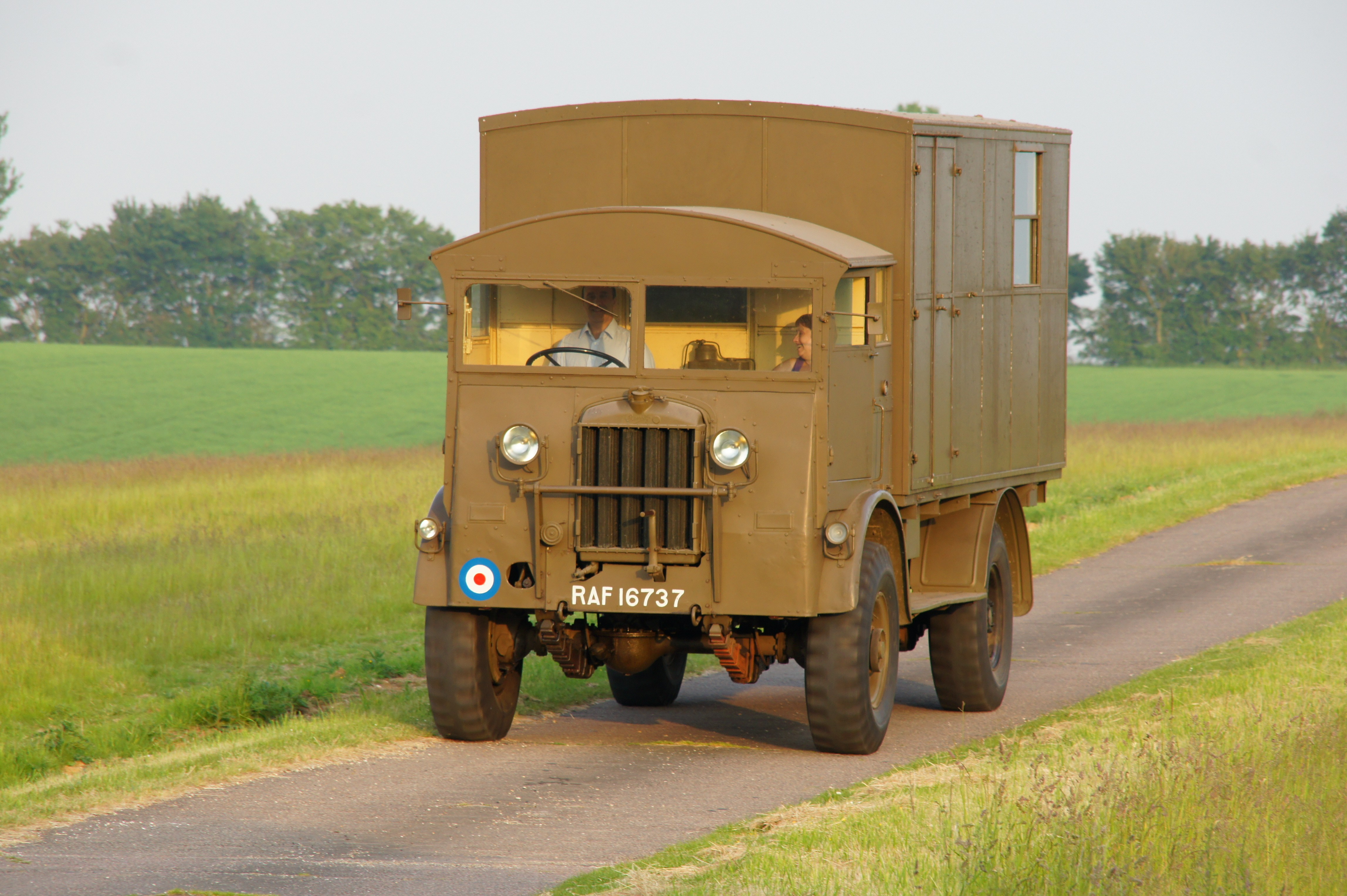 Crossleys galore!